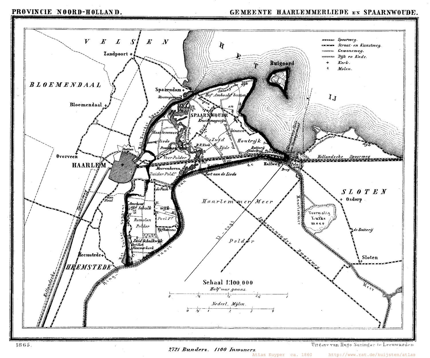 Old map of Haarlemmerliede, North Holland, the Netherlands